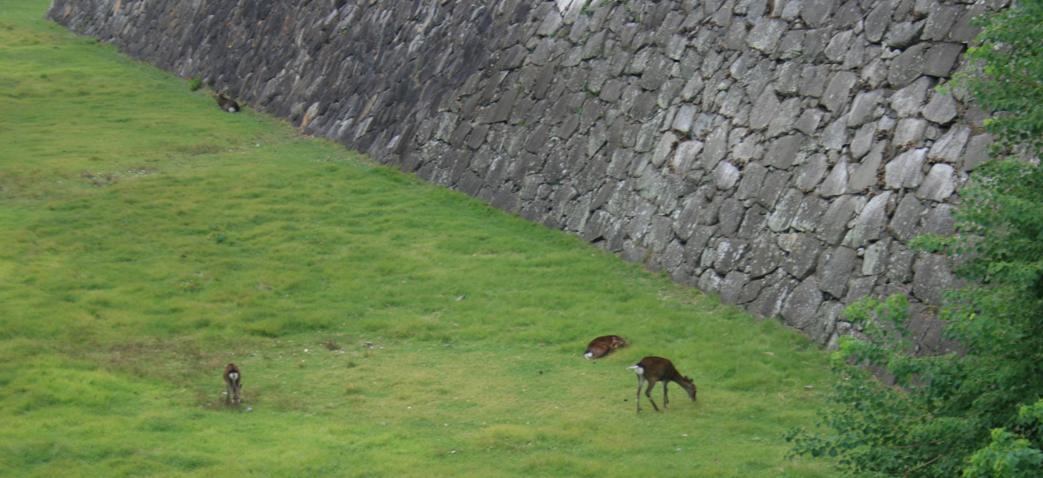 Cervus nippon (Sika deer), in Nagoya Castle